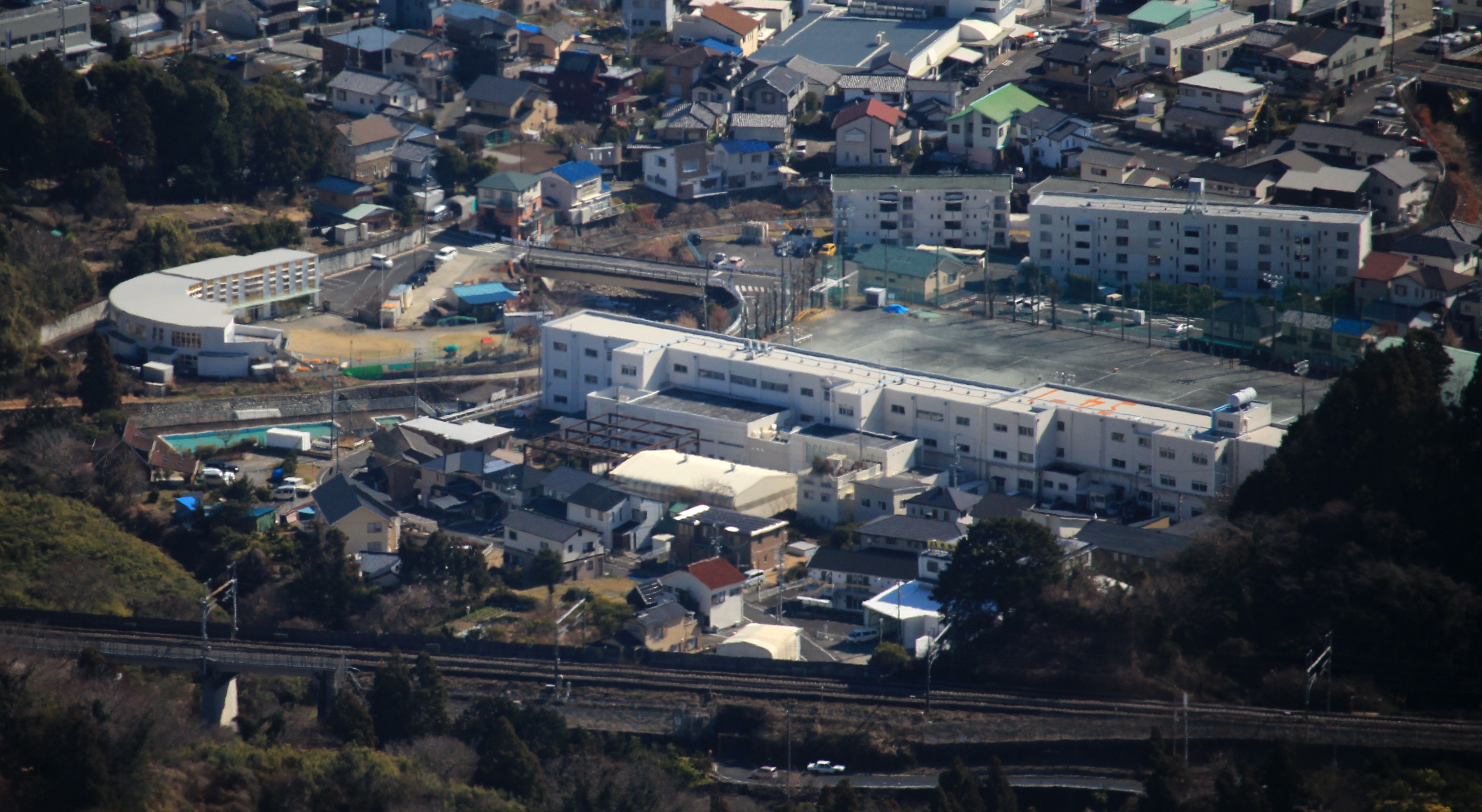 Yui elementary school seen frpm Mount Hamaishi in Shimizu-ku, Shizuoka city, Shizuoka prefecture, Japan.